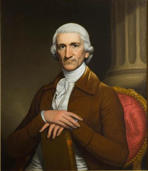 Portrait "Charles Thomson" Oil on canvas; Joseph Wright (1756 - 1793), American; c. 1785